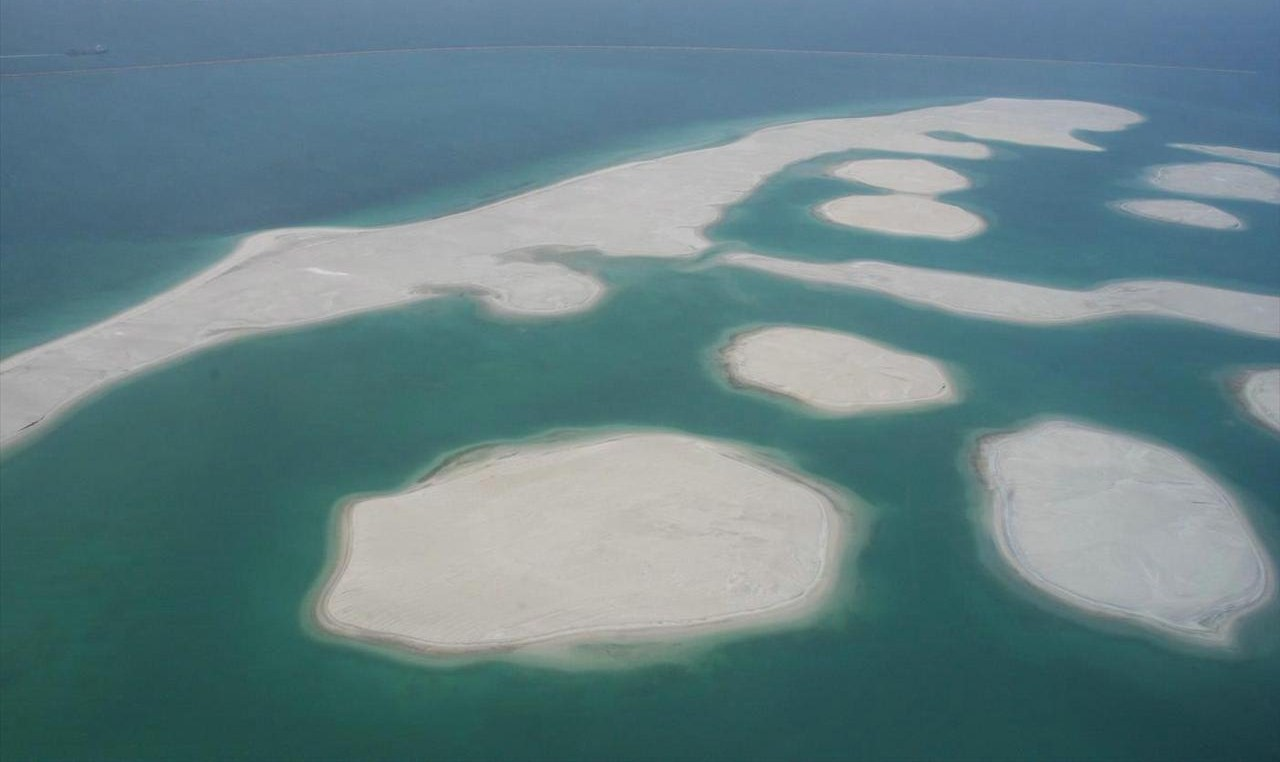 This is a photo showing some of the islands in The World in Dubai, United Arab Emirates as seen from the air on 1 May 2007. The breakwater can be seen toward the top of the photo.